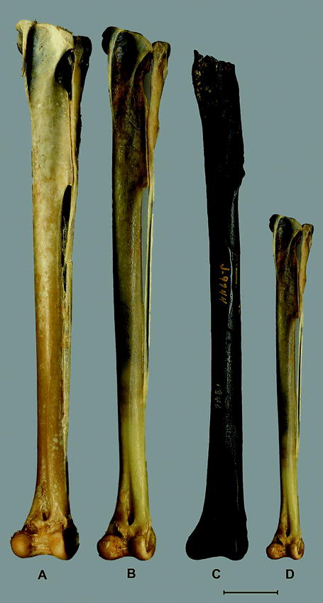 Left tibiotarsi in anterior view: (A) Buteogallus urubitinga USNM 345786, (B) B. meridionalis USNM 630248, (C) B. daggetti LACM K3159, and (D) B. meridionalis USNM 630248. (A) and (B) are enlarged to the same size as (C). Scale = 2 cm for (C) and (D).